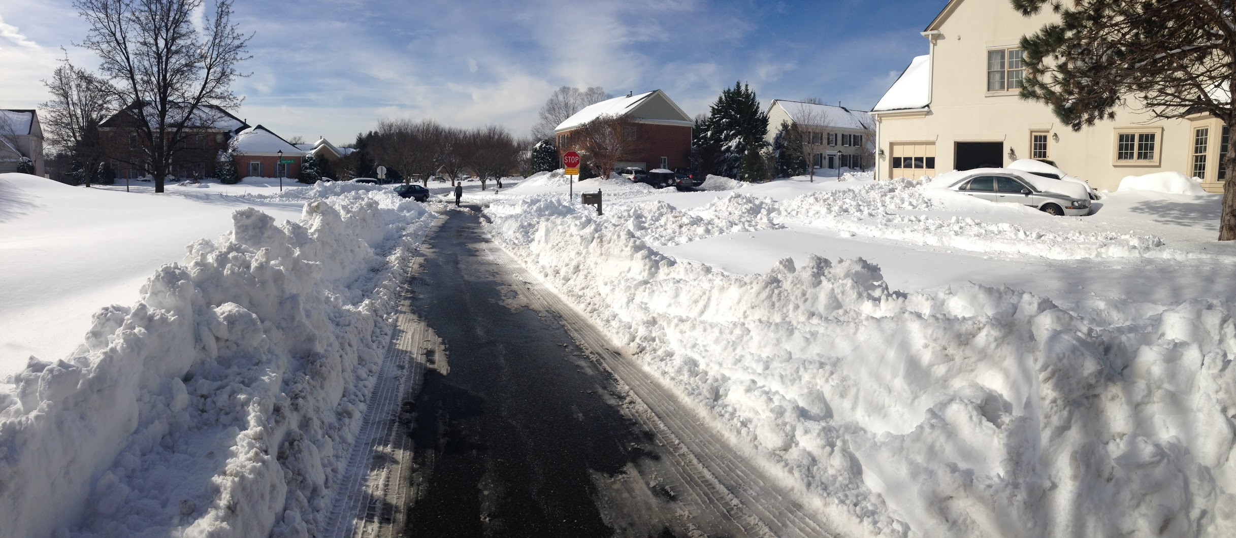 January Blizzard 2016 Montgomery County, Maryland - Potomac road, showing how deep the snow is